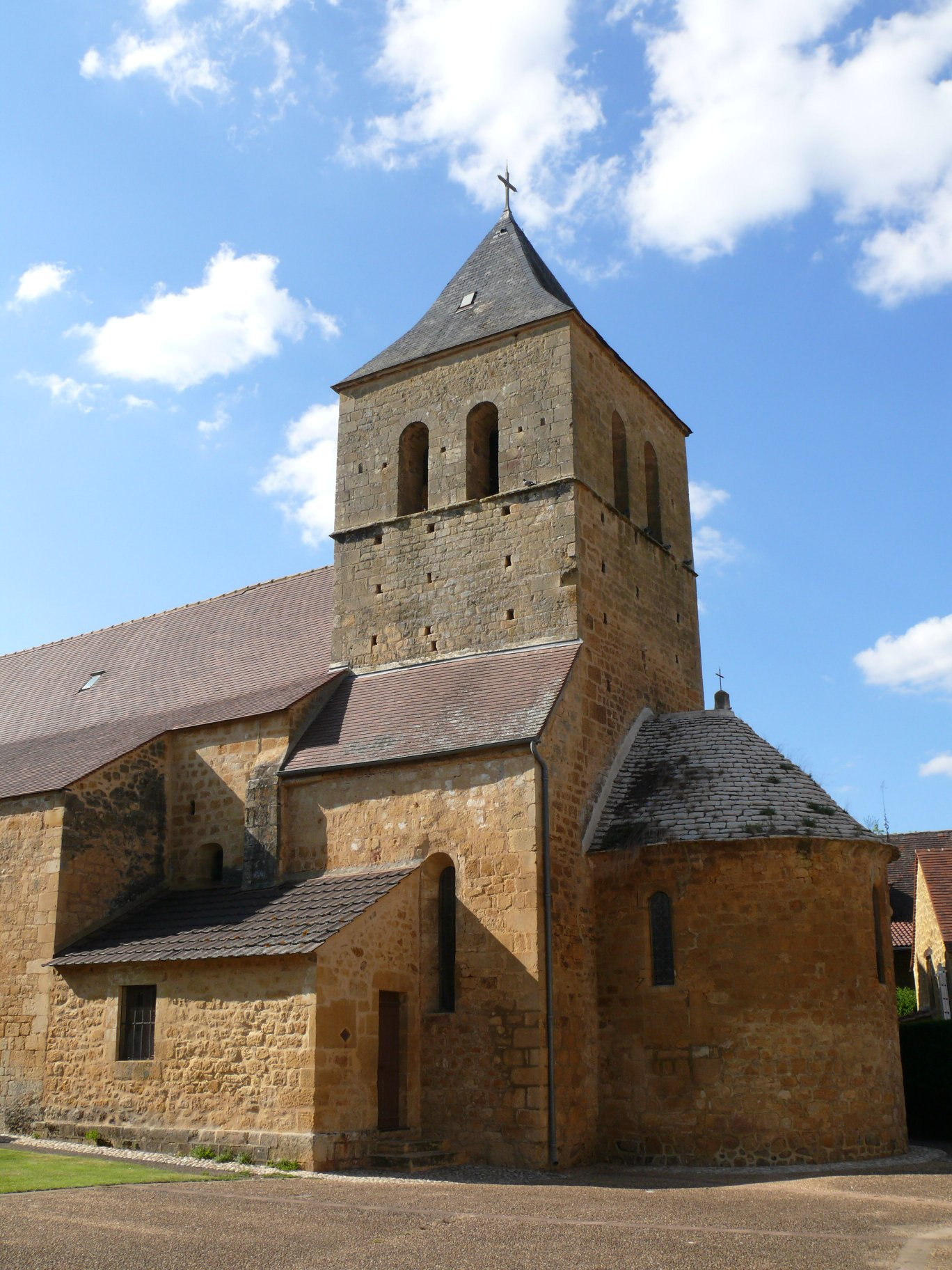 Saint-Agapit's church of Payrignac (Lot, Midi-Pyrénées, France).